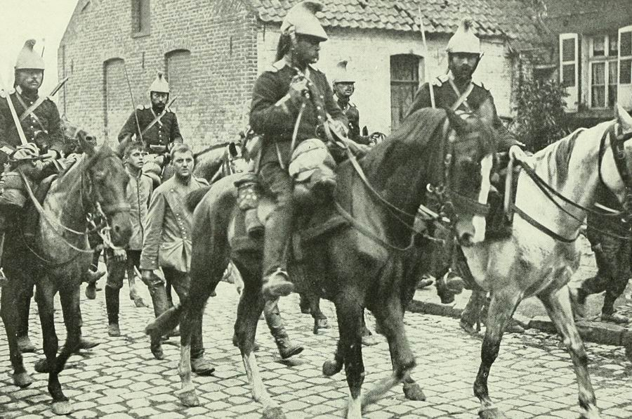 French cavalry marching German prisoners through the town of Aniche.